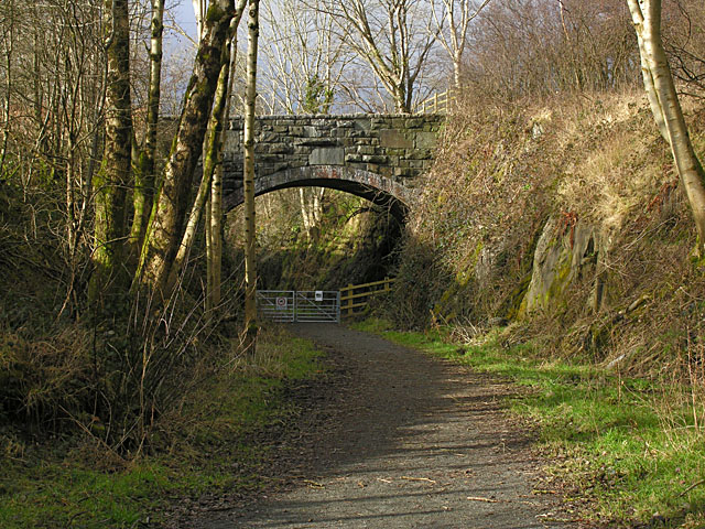 Old railway bridge at Ystrad Meurig With the railway trackbed cleared and a foot and cycle path relaid as part of the new Ystwyth Trail. The bridge carries a farm track and bridleway.